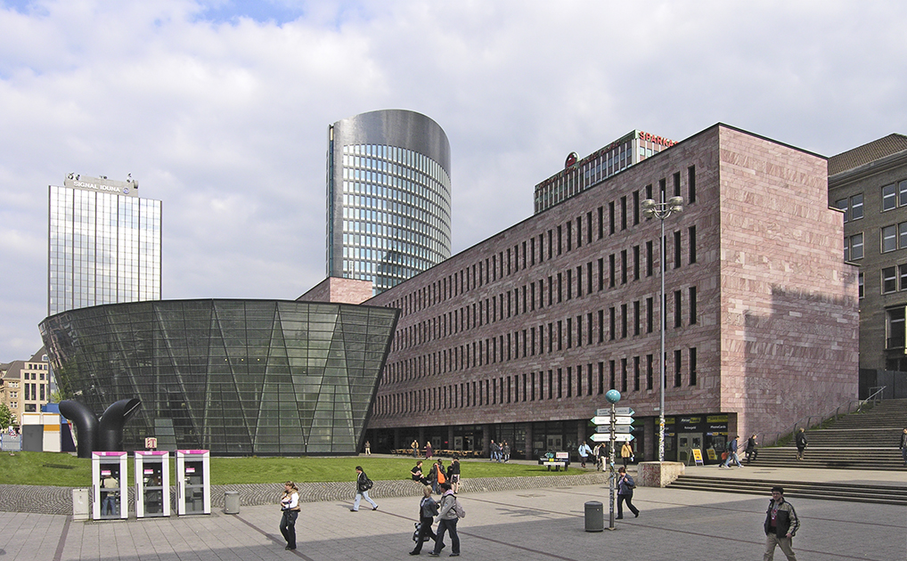 Dortmund, city and state library, architect: Mario Botta